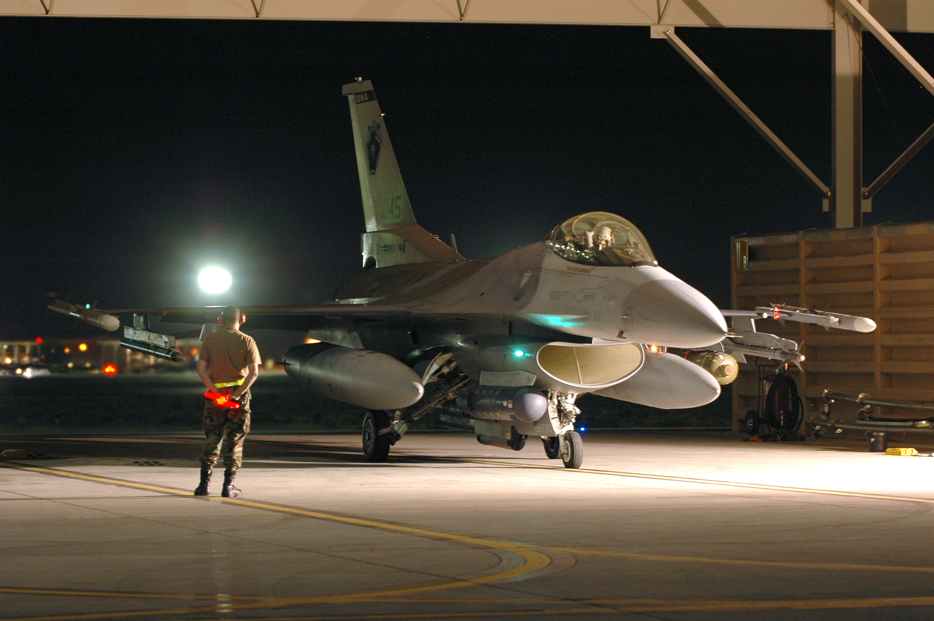 TSgt. Mike Johanns, dedicated crew chief from the 132nd FW ANG, Des Moines, Iowa, waits to marshal F-16C block 42 #89-2045 of the 124th FS during Red Flag 06-02 at Nellis AFB on August 15th, 2006. [USAF photo by TSgt. Bob Sommer]